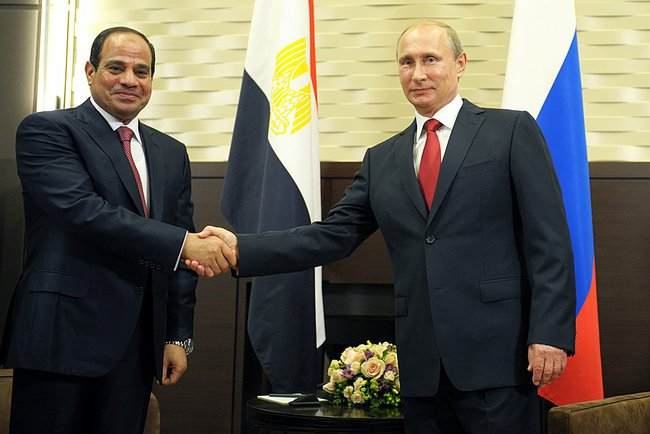 Vladimir Putin held talks in Sochi with President of Egypt Abdel Fattah al-Sisi. Following the talks, the two leaders made press statements. Before the official negotiations, Vladimir Putin and Abdel Fattah al-Sisi visited the Laura Cross-Country Ski and Biathlon Centre in Krasnaya Polyana.